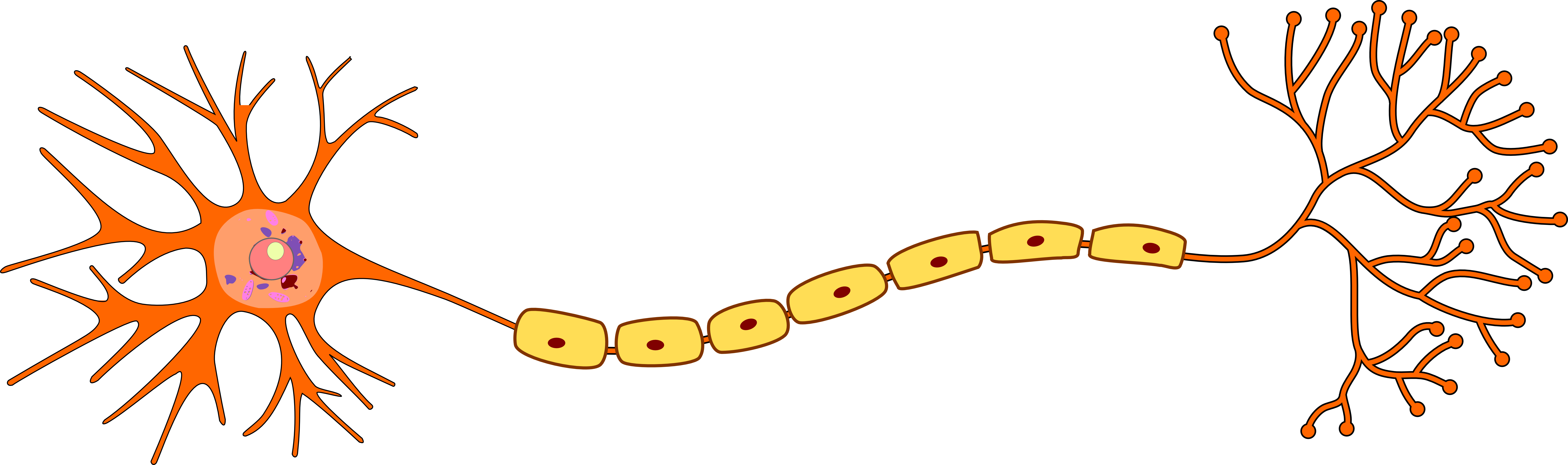 Structure of Neuron (unlabeled)